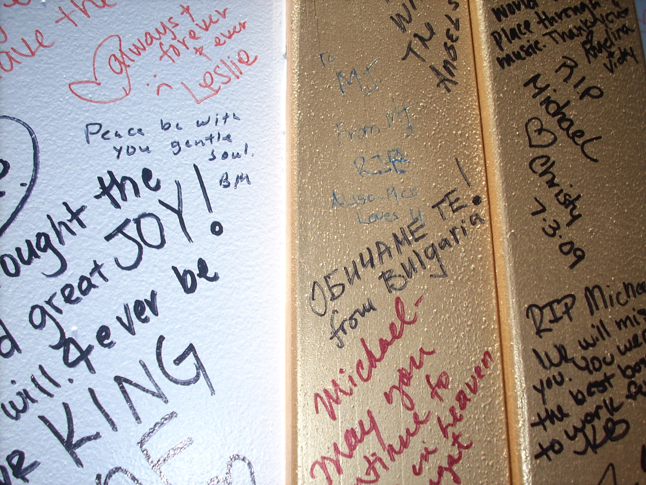 in front of Neverland ranch